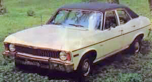 Chevrolet Nova made in Argentina, where it was renamed as "Chevy" due to commercial purposes.